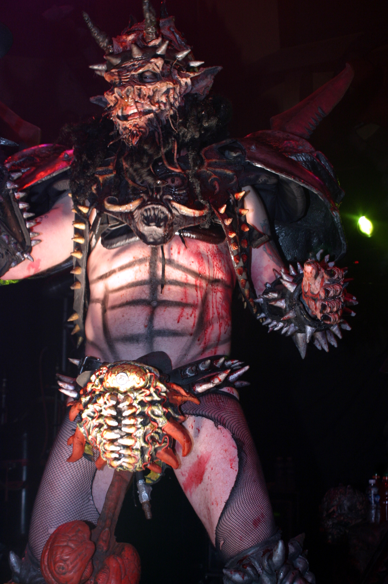 Oderus Urungus of GWAR Live in Concert